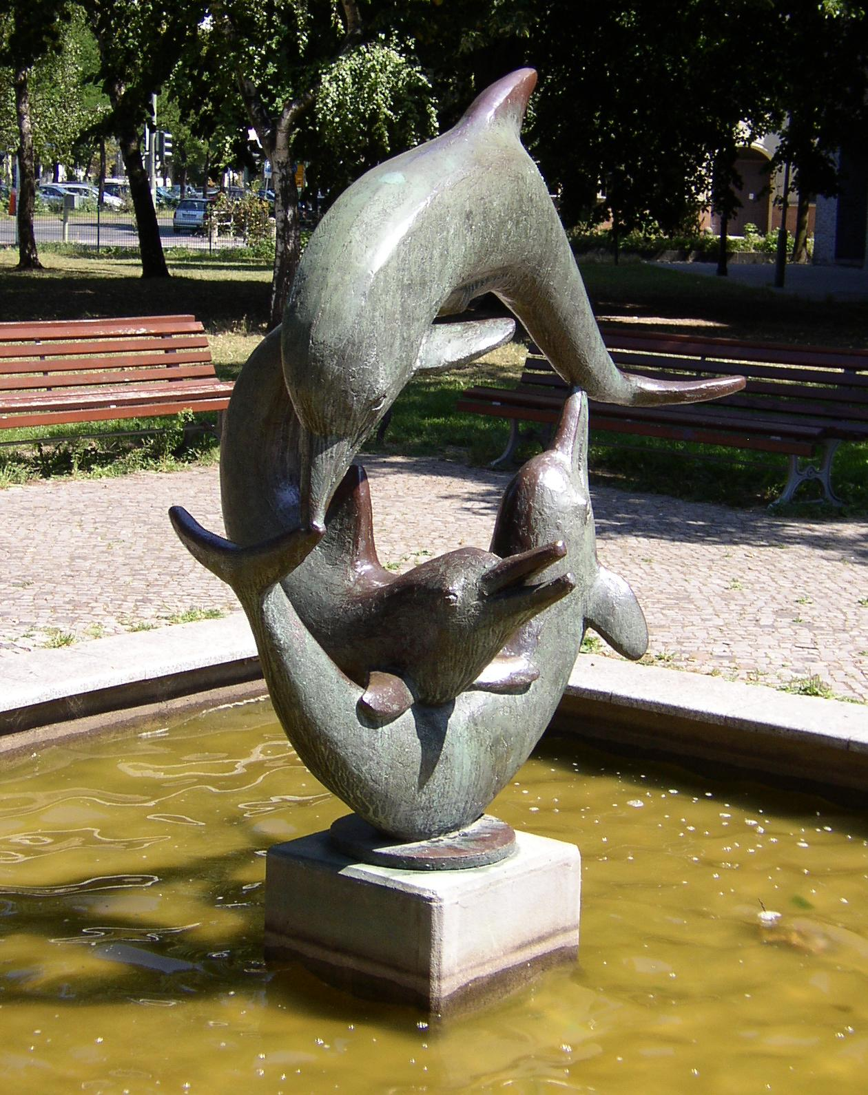 Fountain by Hans Bautz in Berlin-Wilmersdorf, Germany